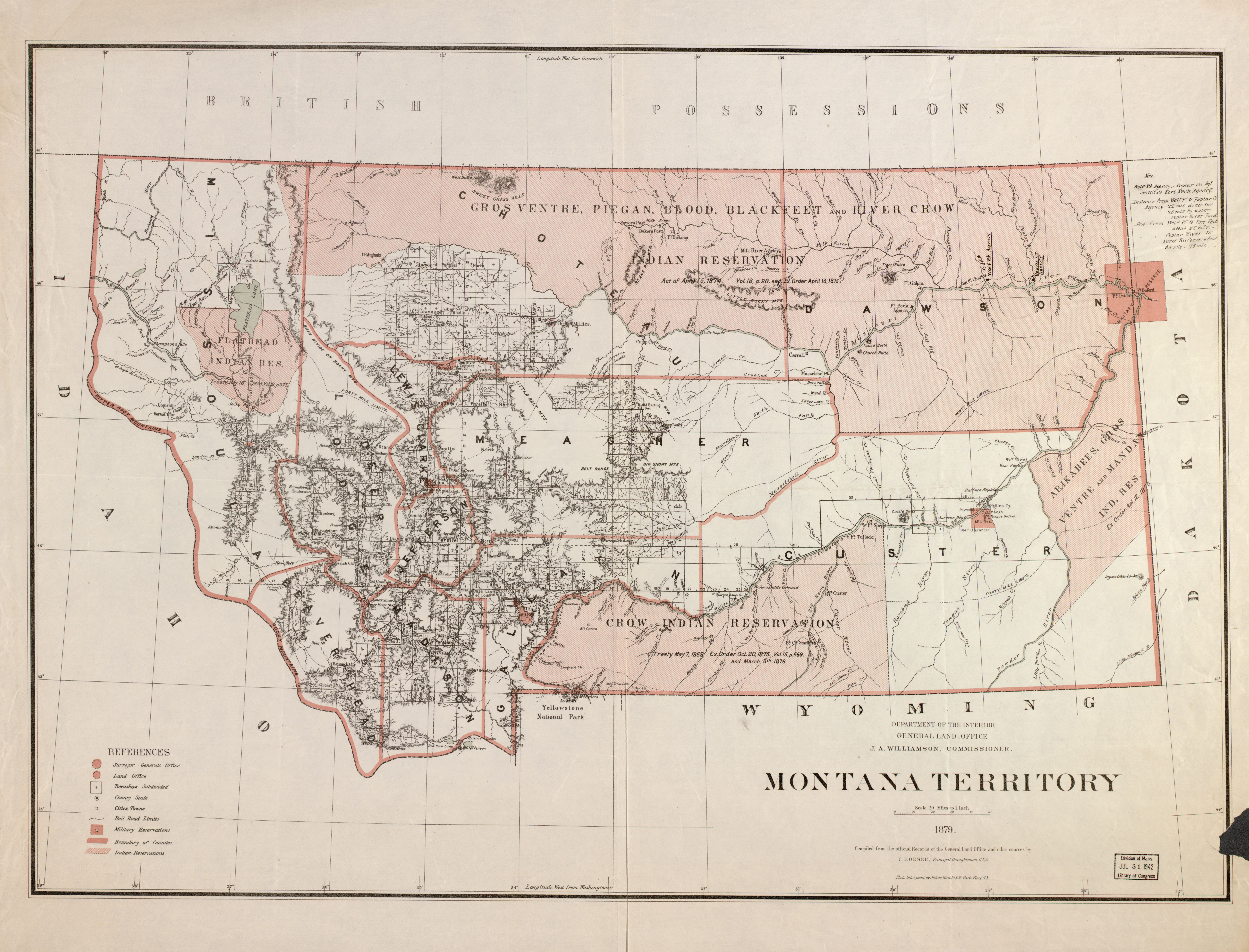 Montana territory / compiled from the official records of the General Lane Office and other sources by C. Roeser, principal draughtsman G.L.O. ; photo lith. & print. by Julius Bien.